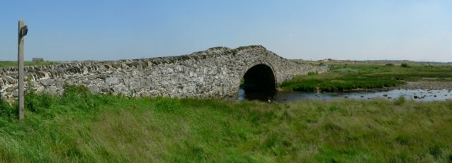 Pont Aberffraw, Aberffraw, Anglesey. A view of the ancient bridge at Aberffraw, Anglesey. This bridge provided the main route into Aberffraw until the 1960's.